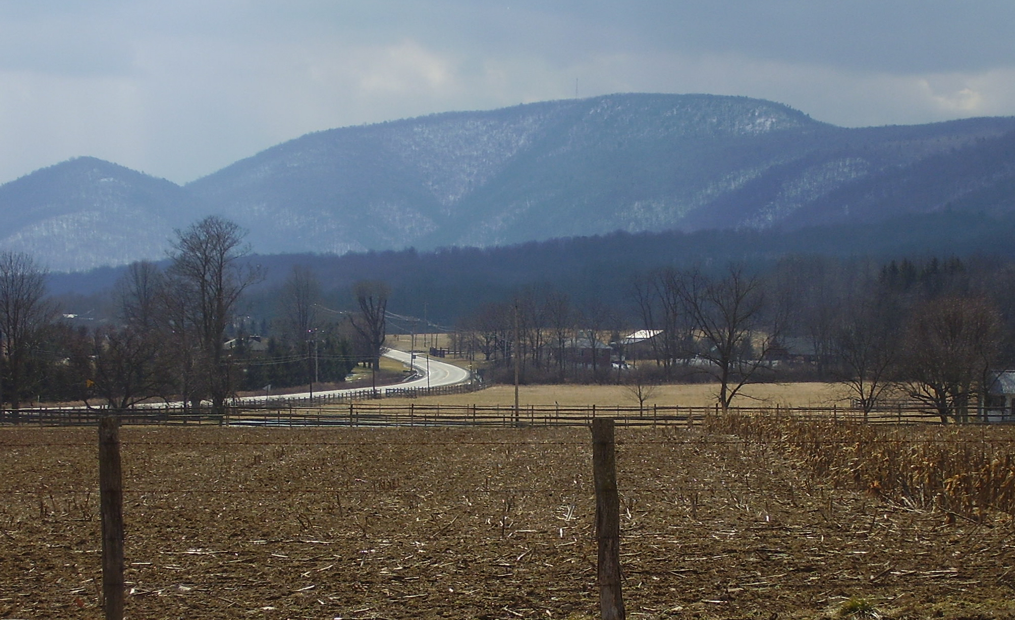 Big Mountain summit on Tuscarora Mountain. by: Joe Calzarette